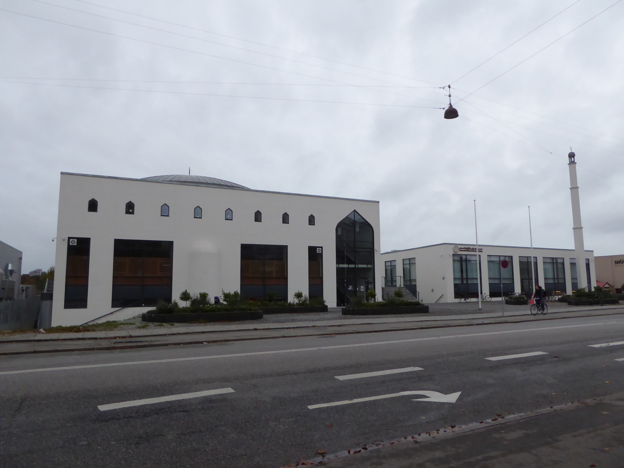 The mosque and Islamic cultural center Hamad Bin Khalifa Civilisation Center at Rovsingsgade in Nørrebro in Copenhagen.